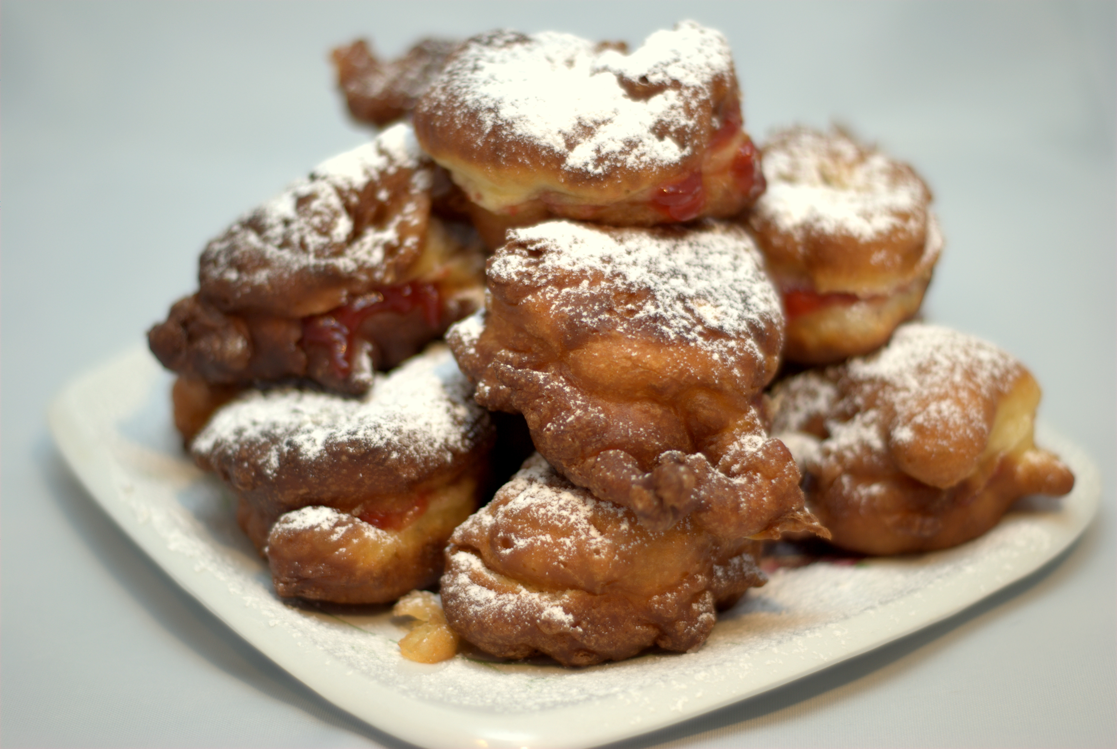 Mekici - traditional Bulgarian donuts.